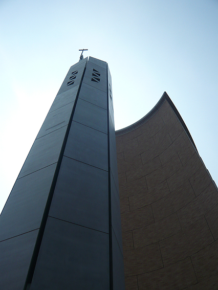 St. Ignatius church in Tokyo. Modern movement style.